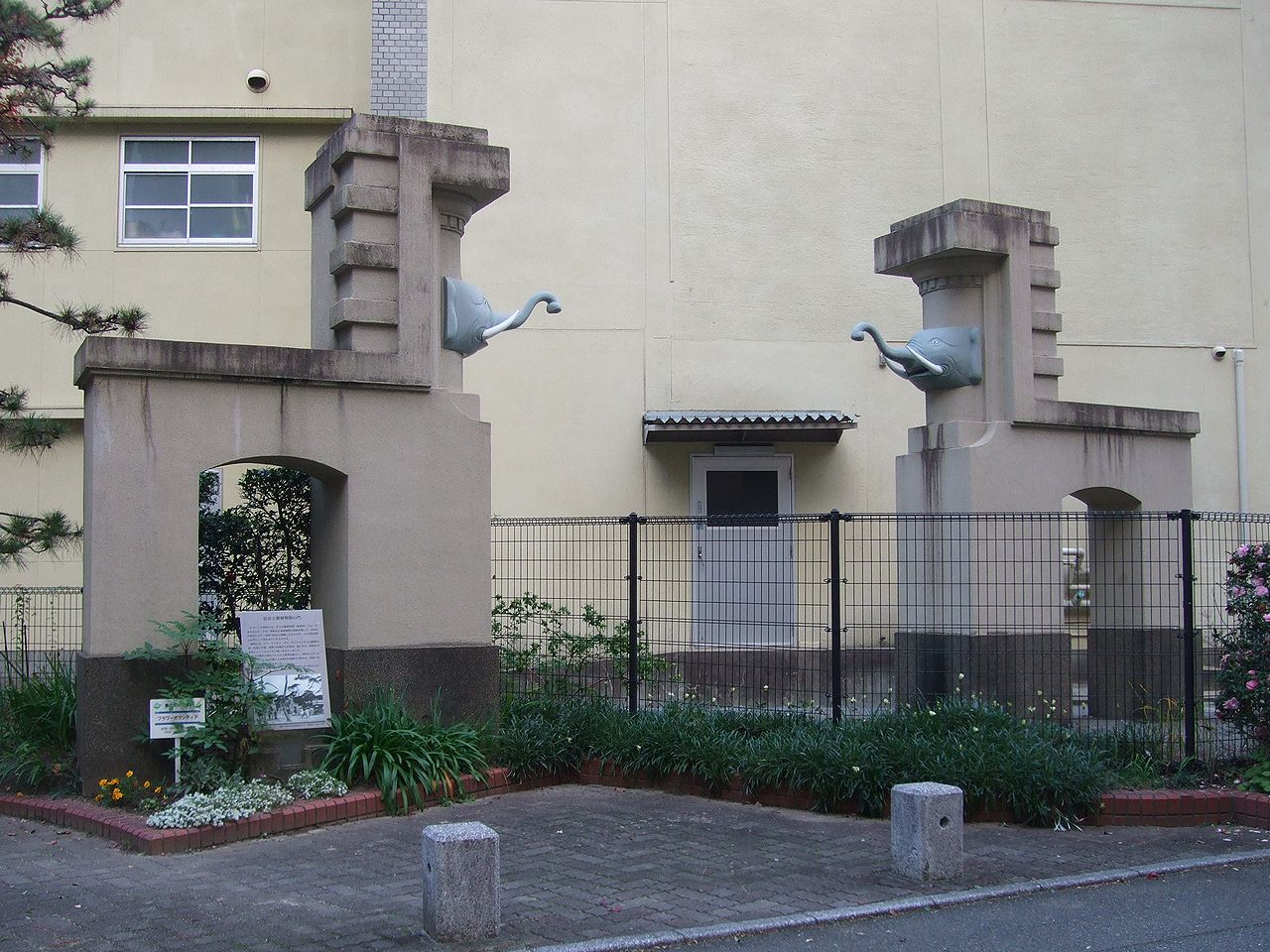 Former Fukuoka Zoo gate in Fukuoka Municipal Maidashi Elementary School, Higashi Ward, Fukuoka City, Fukuoka, Japan.